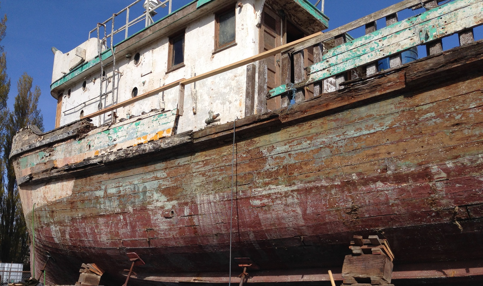 The Western Flyer after recovery and move to Port Townsend, WA. April 2015